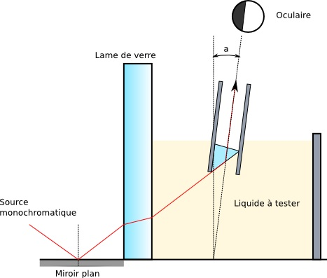 Sketch of an immersion refractometer.